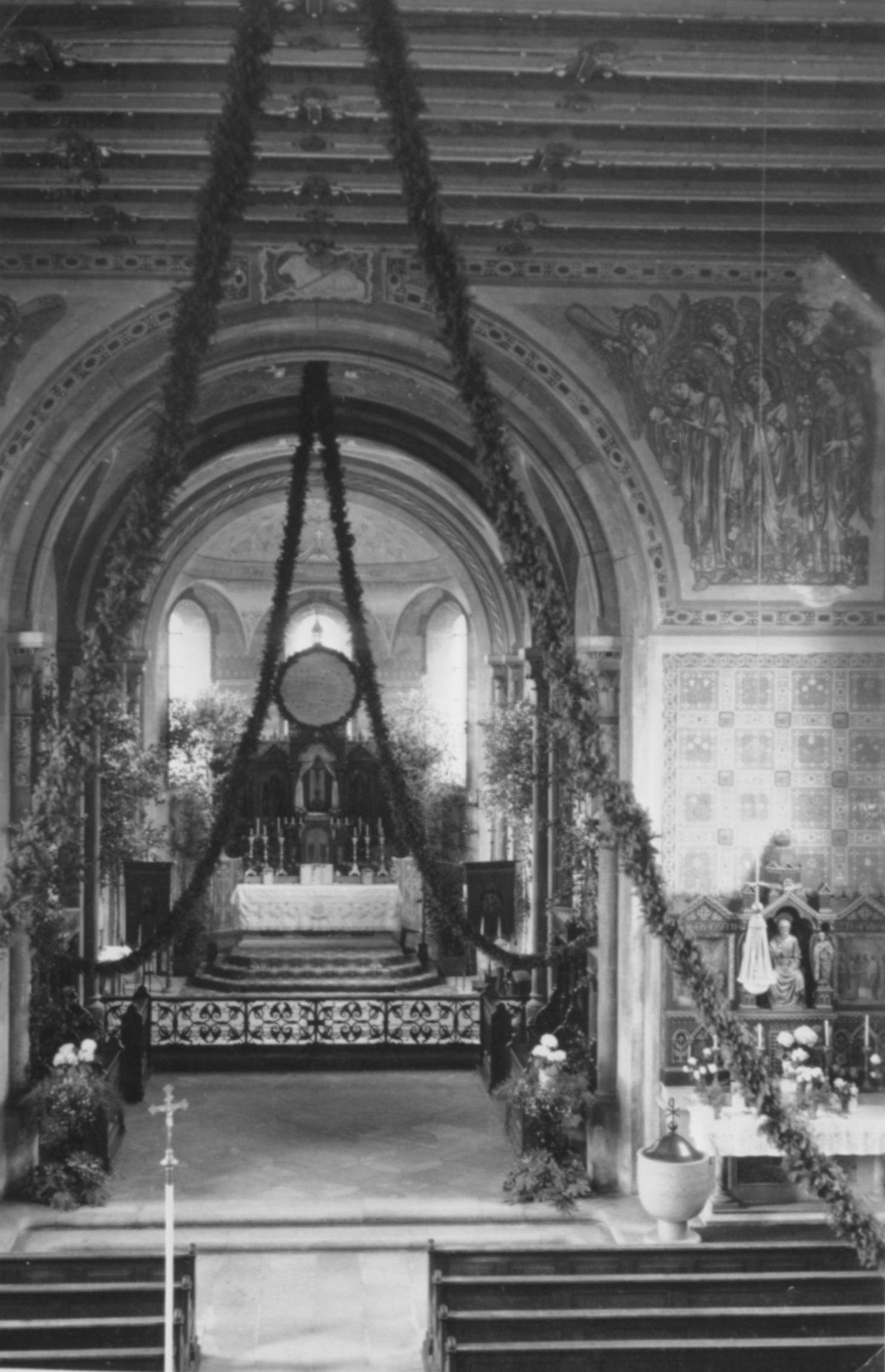 Geschmückte Kirche zum 50. Jubiläum in Weichering